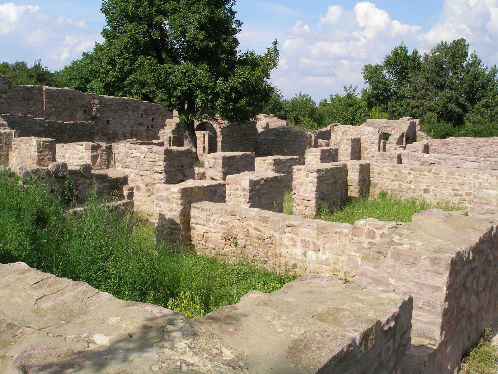 Pauline Monastery, Pécs, Jakab-hill This is a photo of a monument in Hungary, Identifier: 1839